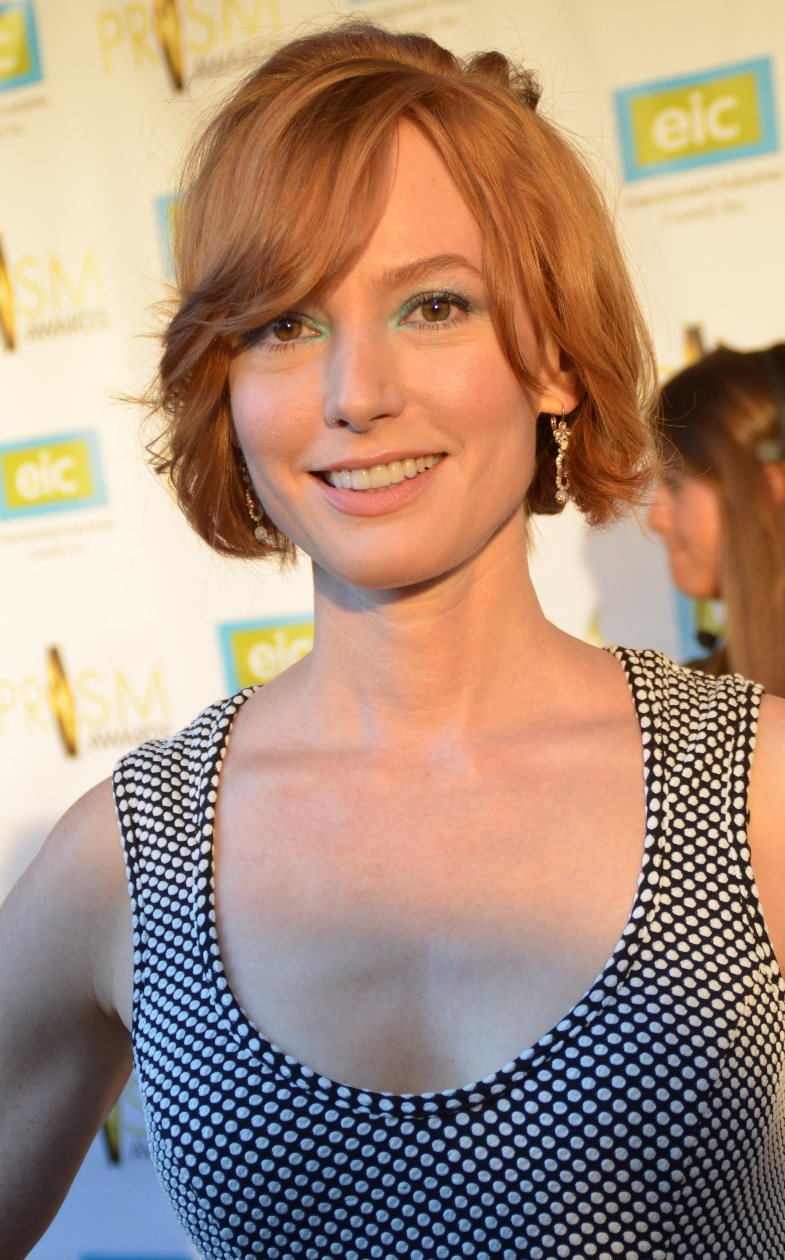 Mingle Media TV and Red Carpet Report host Jackie Powell were invited to cover the 18th Annual PRISM Awards at the Skirball Cultural Center honoring writers, producers, directors, and actors for their authentic depictions of mental health and substance use issues. Get the Story from the Red Carpet Report Team, follow us on Twitter and Facebook at: Follow our host Jackie Powell on Twitter at